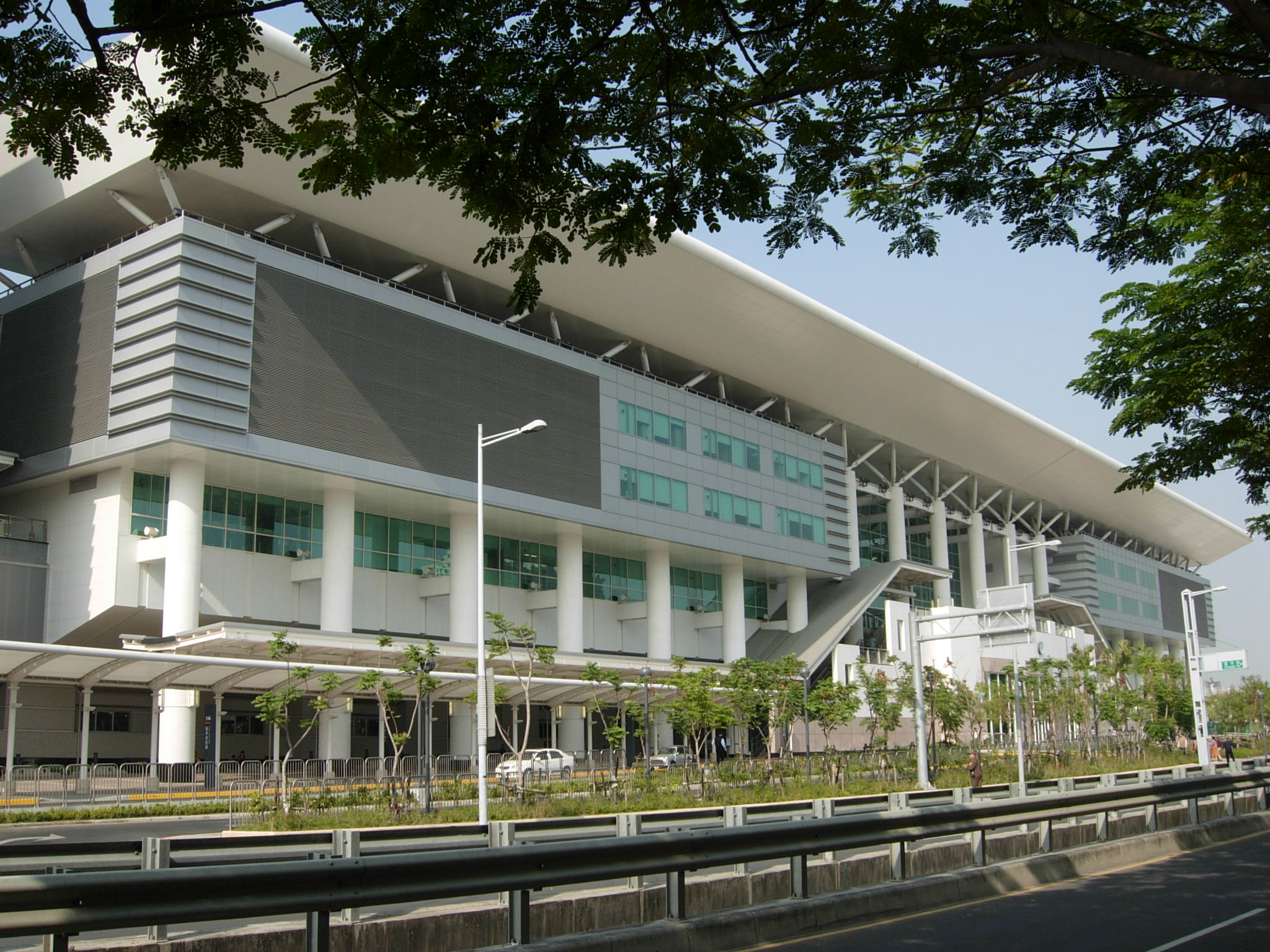 THSR Zuoying Station.